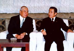 Masahide Ōta, Governor of Okinawa Prefecture, talked with Ryūtarō Hashimoto, Prime Minister, at the Prime Minister's Official Residence in Chiyoda Ward, Tōkyō Metropolis on February 17, 1997.